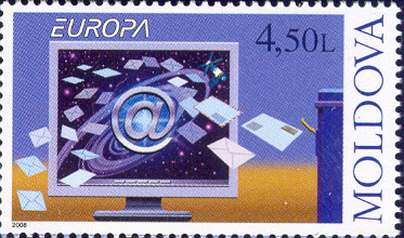 Stamp of Moldova